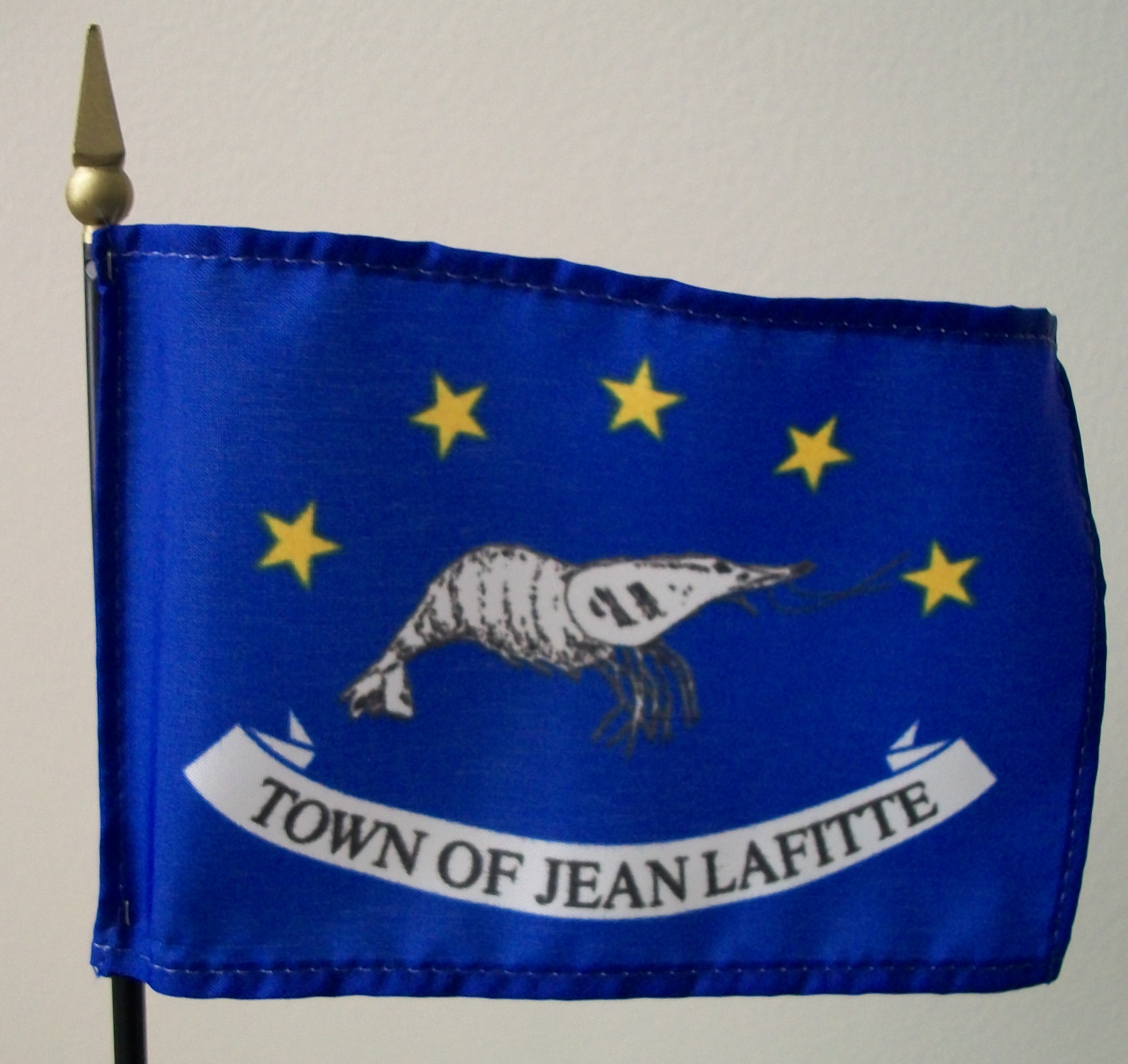 5 Stars across the top, a crawfish in the center and a banner that reads "TOWN OF JEAN LAFITTE" at the bottom.